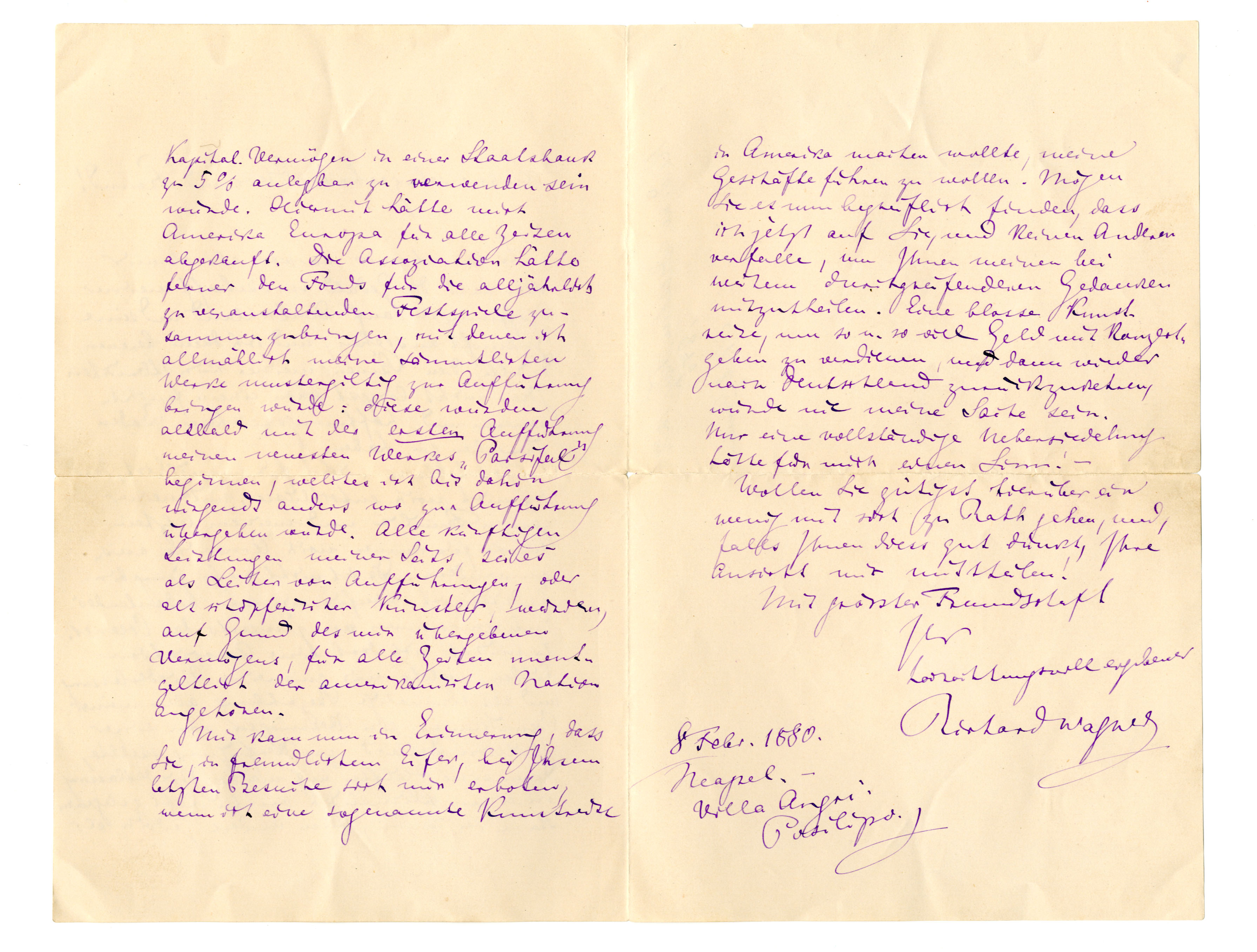 Letter from Richard Wagner (1813-1883) to Dr. Newell Sill Jenkins (1840-1919), February 8, 1880, page 2, Online Exhibits@Yale, accessed March 31, 2016